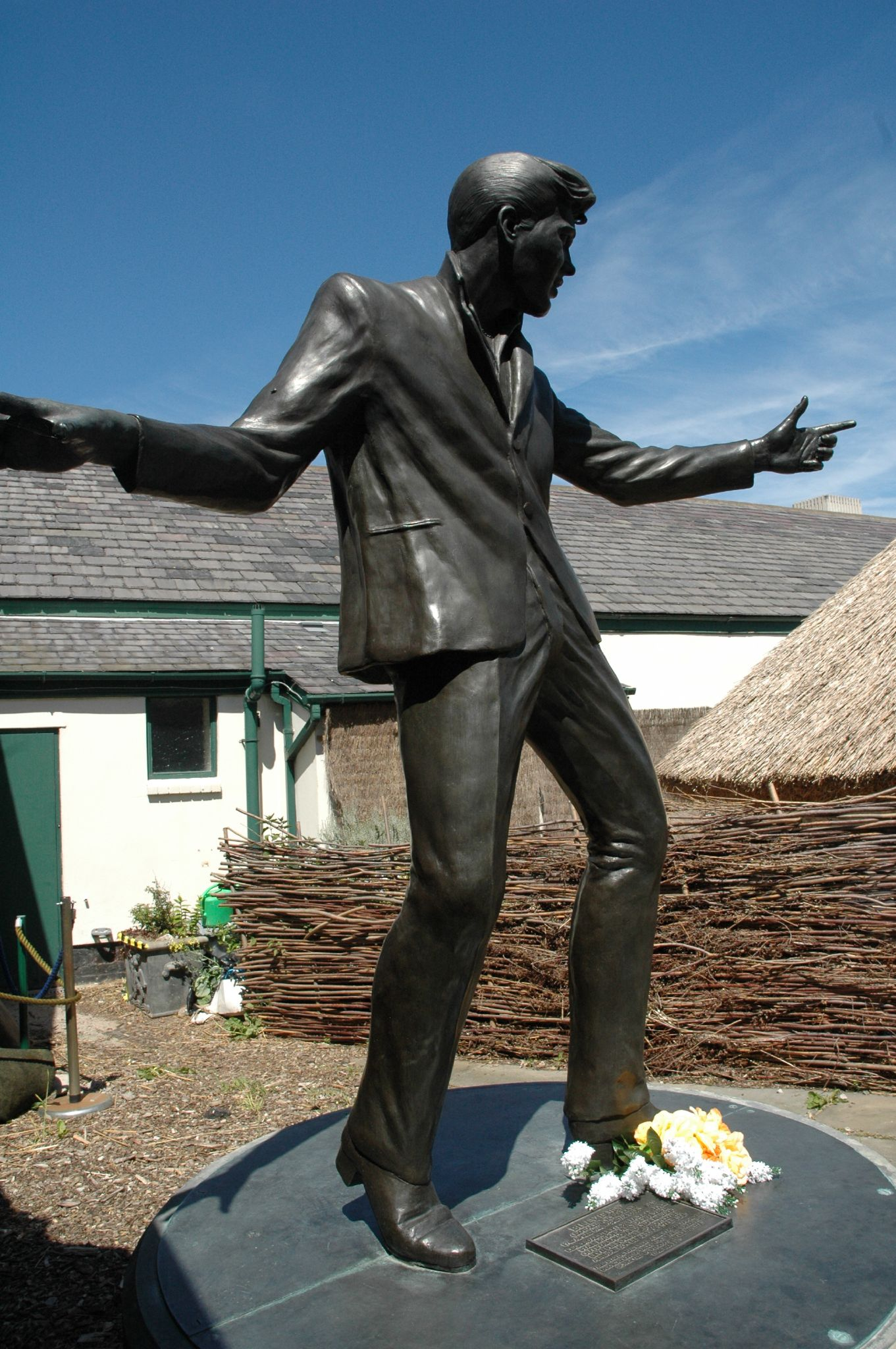 The statue is currently located within the Museum of Liverpool Life. It will be found a new home after the museum closes on 4/6/06